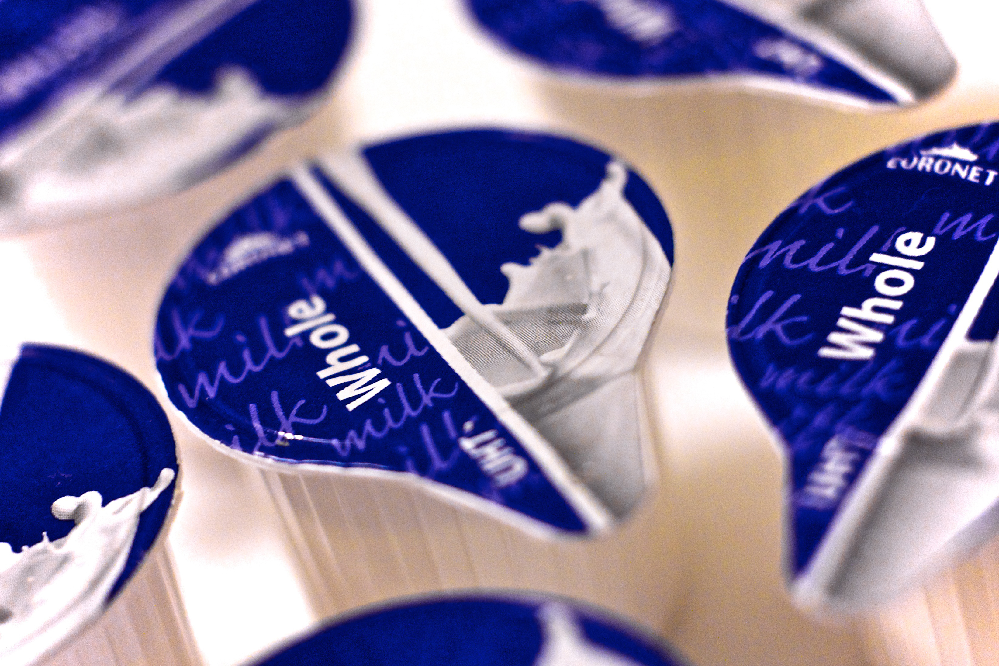 whole milk uht